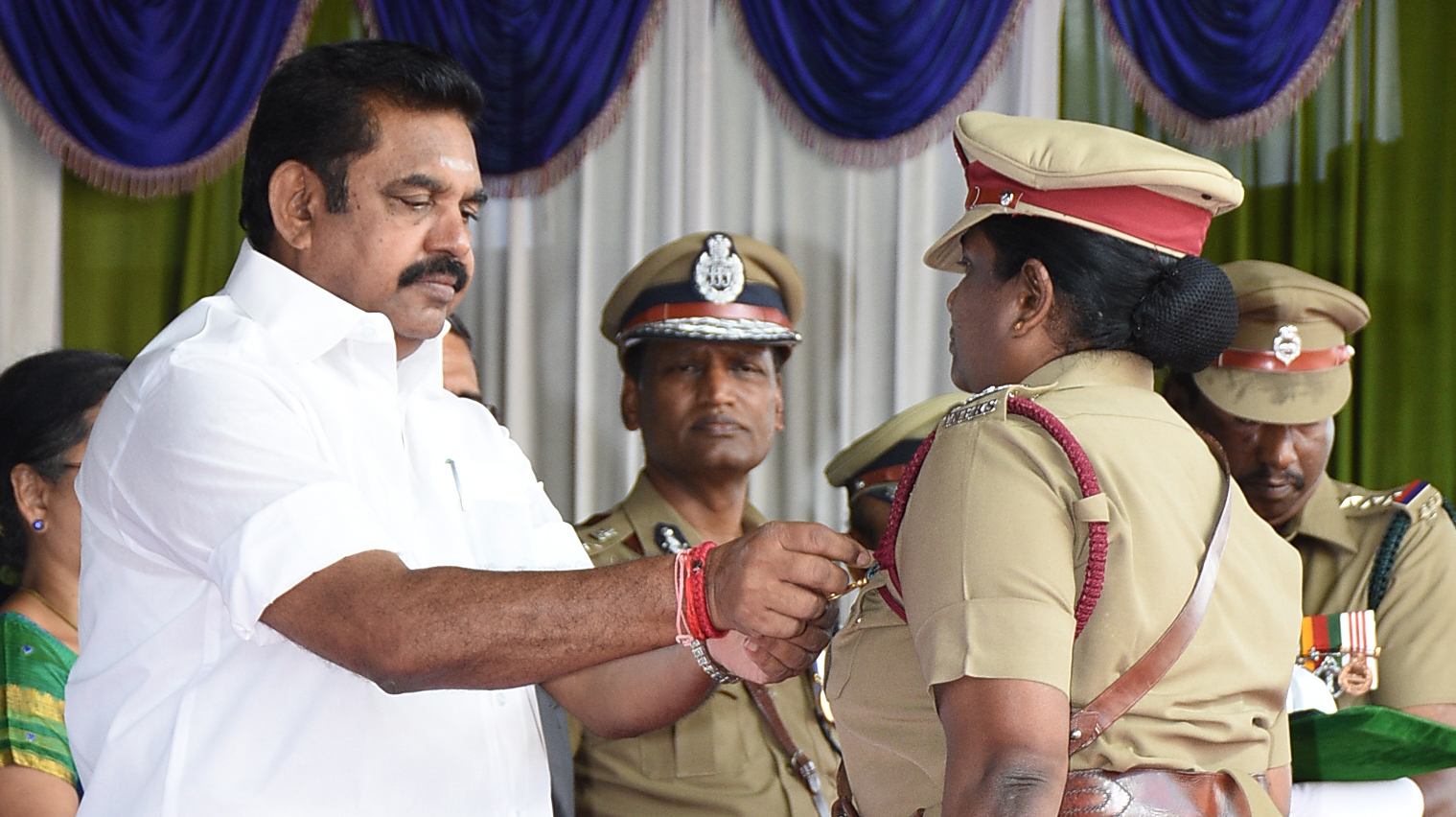 Medal Received from Hon'ble Chief Minister, Tamilnadu